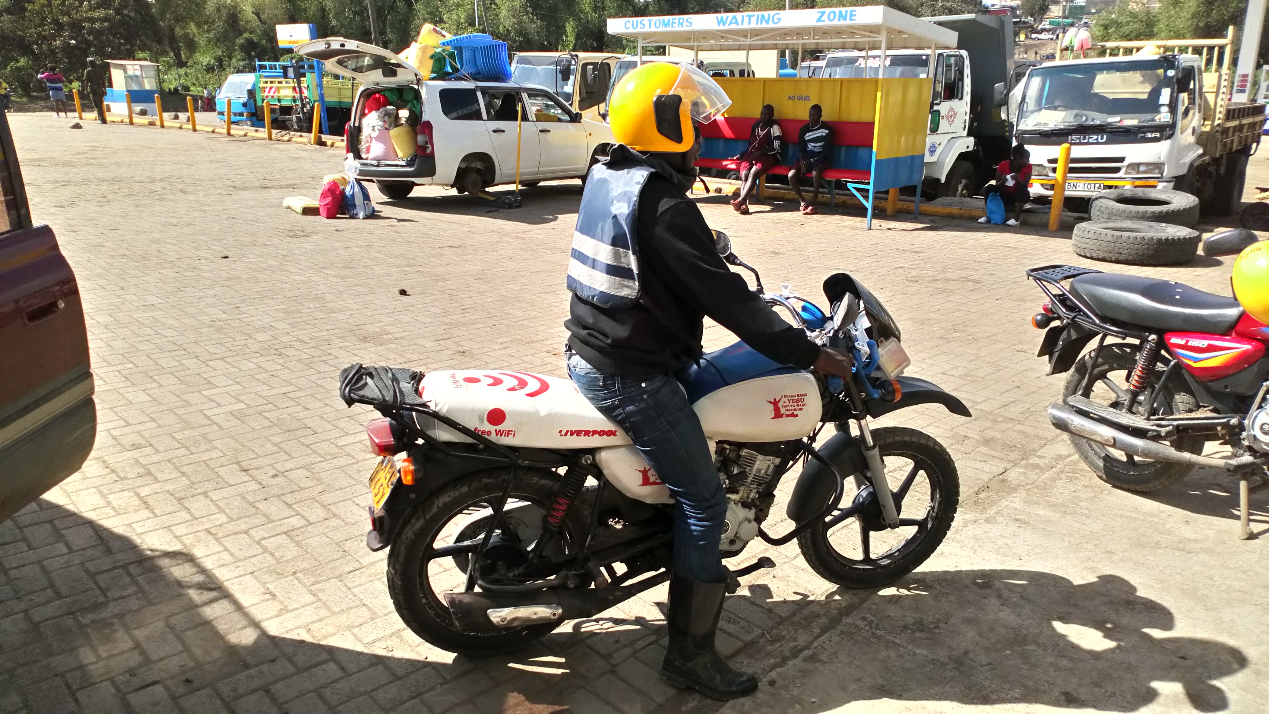 WiFi is freely available in Kenya, even on the motorbike taxis This is an image with the theme "Africa on the Move or Transport" from: Kenya